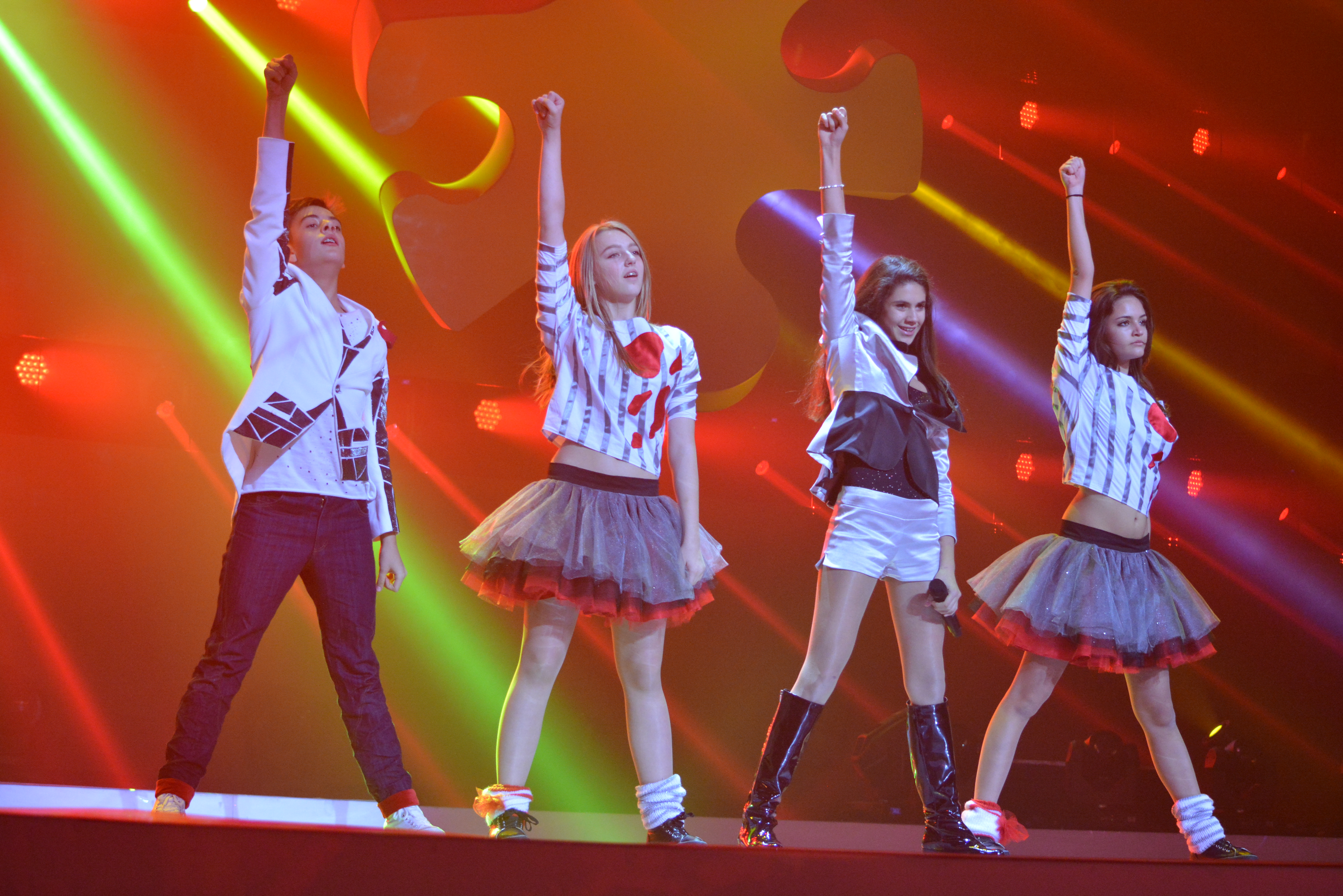 JESC 2013 (Macedonia) Barbara Popović at rehearsal